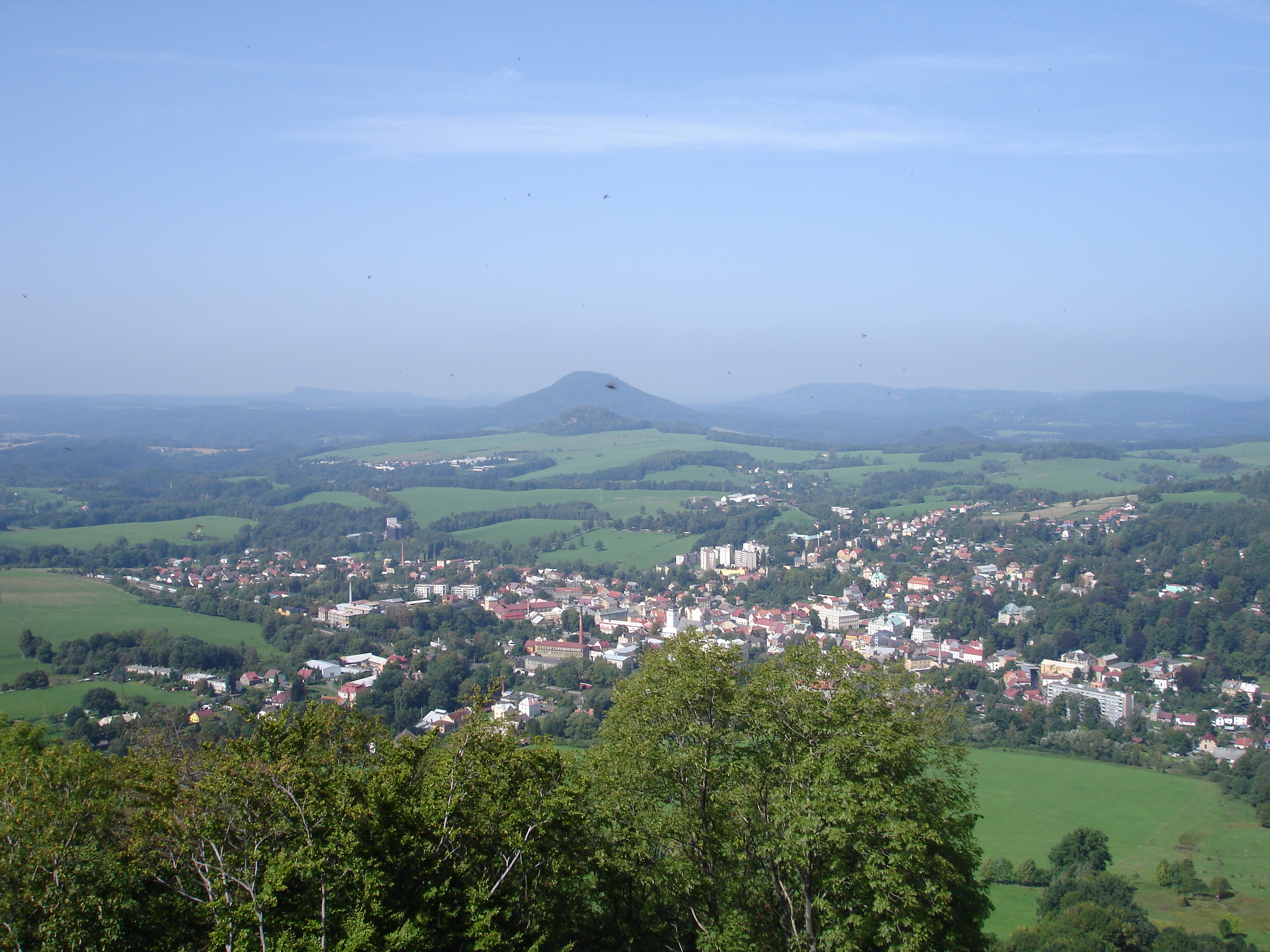 view to northwest from mountain Zámecký vrch in Lužické hory (Lusatian mountains) towards mountain Růžovský vrch, Czech Republic